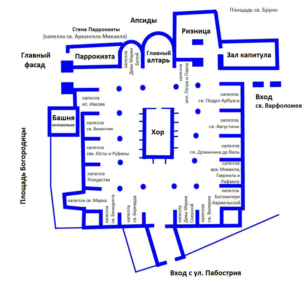 Layout of La Seo Cathedral in Zaragoza (translated from Spanish).